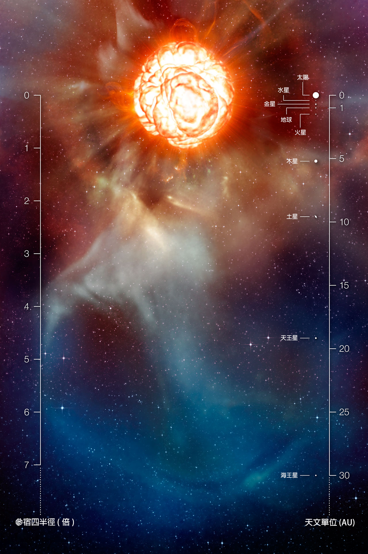 An artist’s impression of Betelgeuse in traditional Chinese annotation.